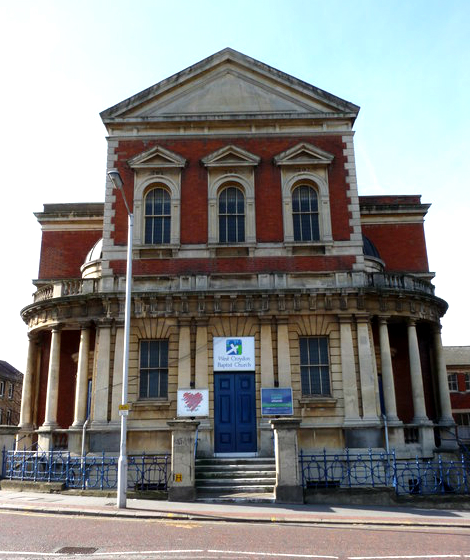 West Croydon Baptist Church, near to Croydon, Great Britain. This church still looks imposing, despite being overshadowed by much taller buildings.